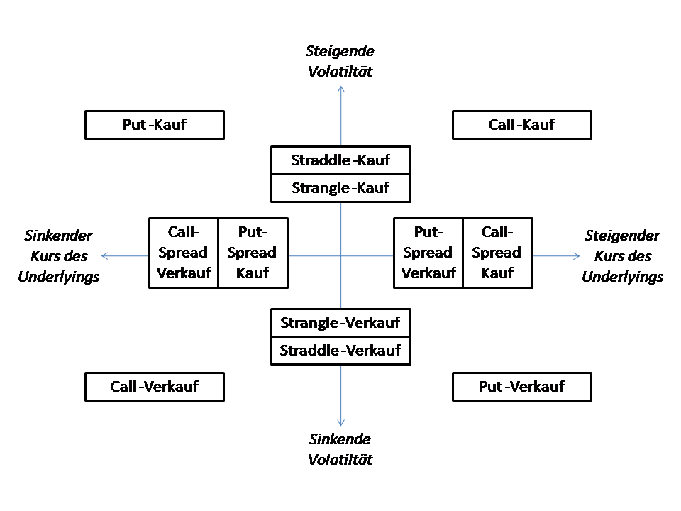 Investment strategy with options (german)